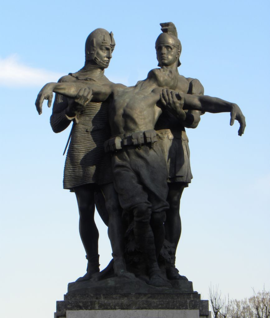 Questo monumento, opera di Enrico Saroldi (formatosi alle Belle Arti di Brera), venne innalzato il 24 giugno 1923 in ricordo delle vittime del primo bombardamento in assoluto su Milano. Le bombe vennero sganciate il 14 febbraio 1916 da aerei austriaci su Porta Romana e Porta Vittoria. I milanesi furono colti di sorpresa perché la guerra era fino ad allora considerata lontana e mai si era visto prima un bombardamento sulla popolazione. Due soldati che già in epoche diverse combatterono contro i germanici (un soldato romano ed un milite della Lega Lombarda, sorreggono una delle vittime del 1916. Il basamento riporta lastre con i nomi dei morti per l’incursione aerea del 14 febbraio 1916 e quelli dei 573 residenti del Rione di Porta Romana caduti in guerra. Citato da: [Url consultato il 10 gennaio 2020]